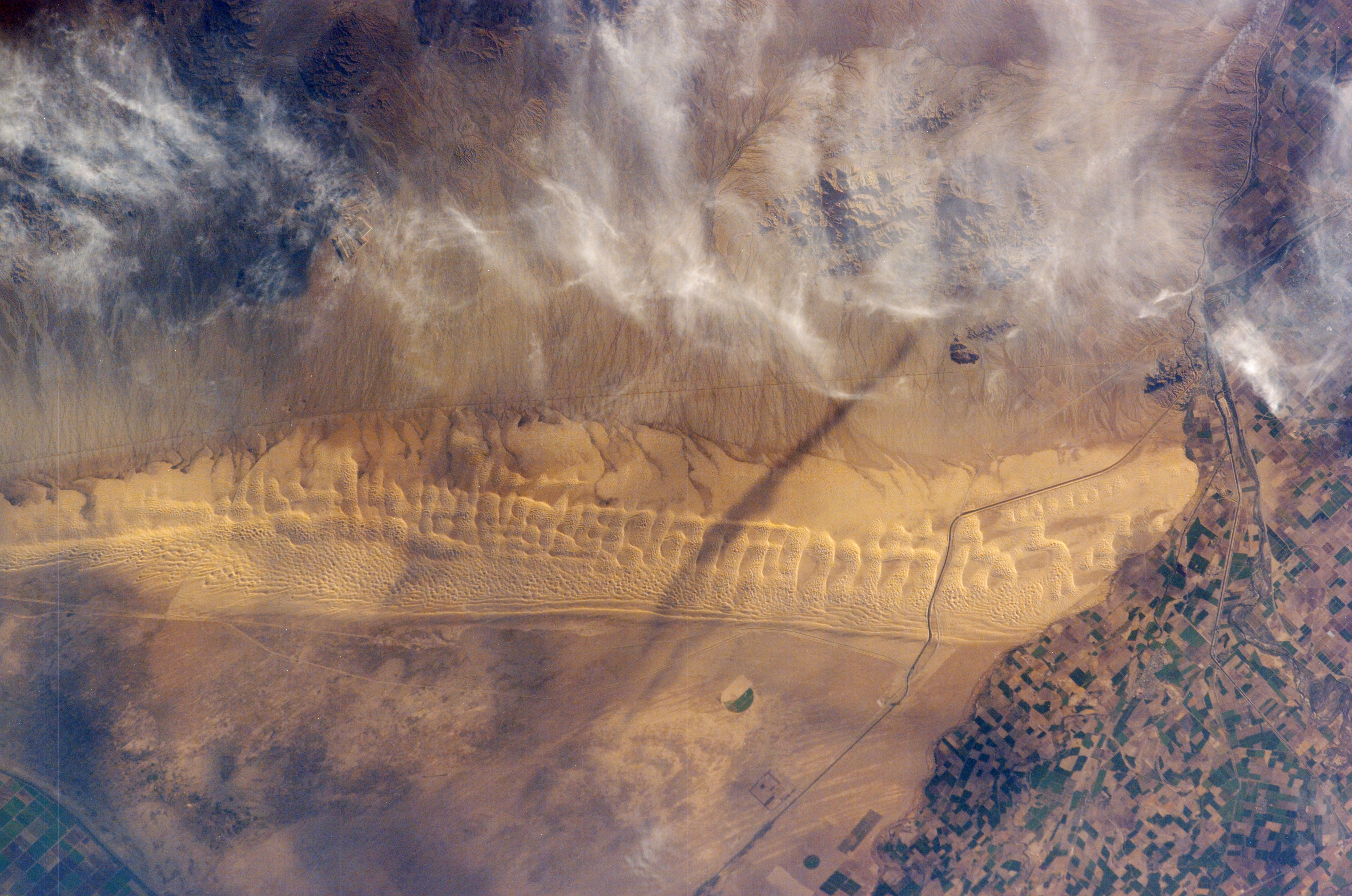 Astronaut photo of the Algodones Dunes, at the borders of California, Arizona, and Mexico. The All-American Canal cuts across the southern end of the dunes and the Cargo Muchacho Mountains can be seen beneath cloud cover at the top of the scene. Remains of the Alamo Canal are located parallel to the left side of the Colorado River (center far right of image), with the intake still visible near Pilot Knob.